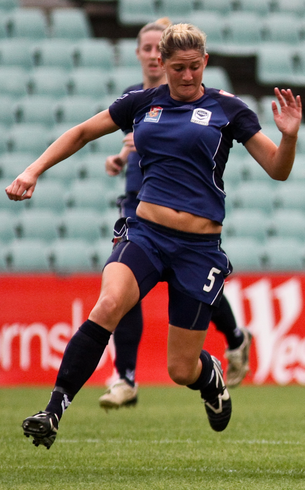 Laura Alleway playing for Melbourne Victory FC in the W-League against the Central Coast Mariners.